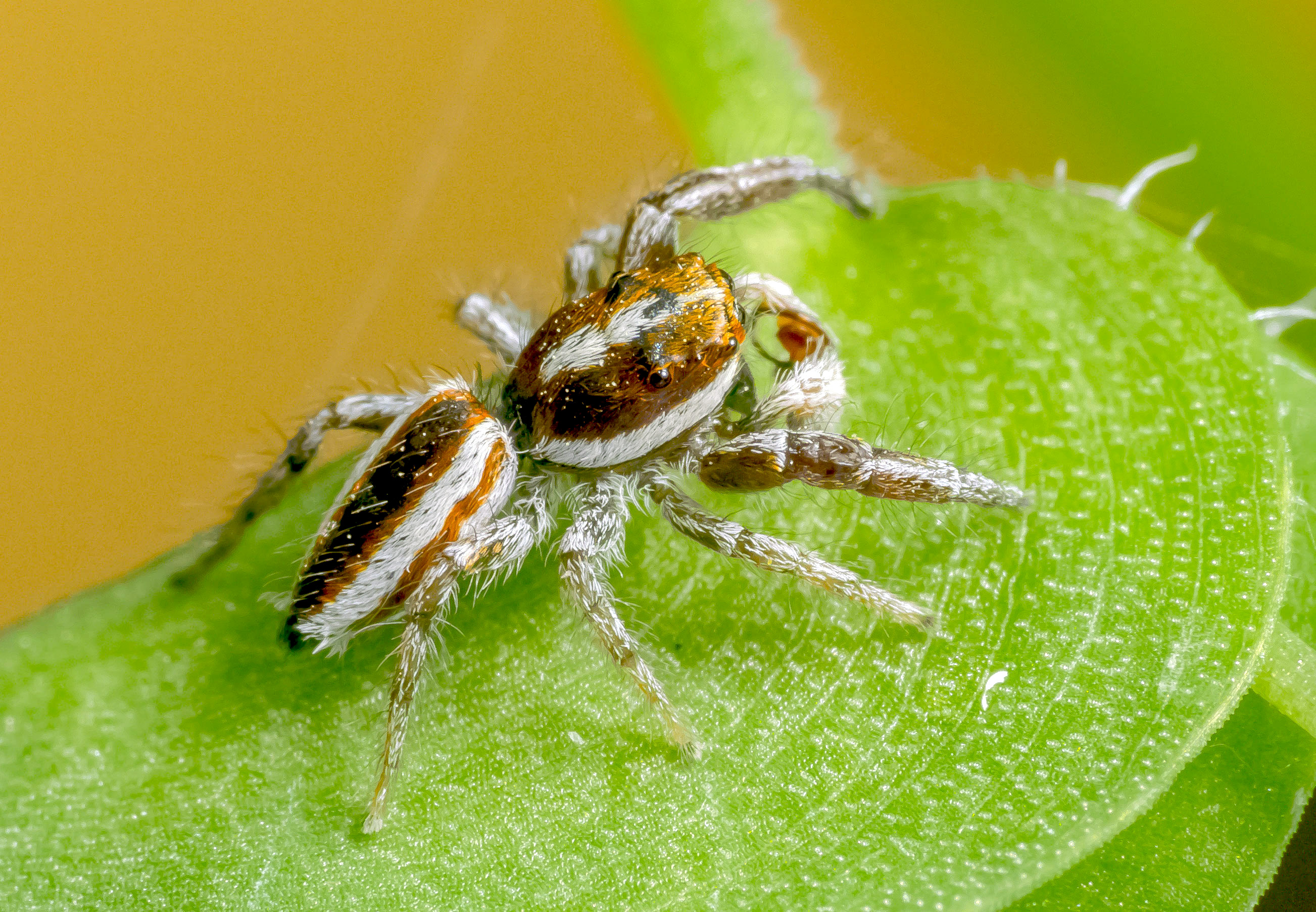 Afraflacilla sp. (undescribed)